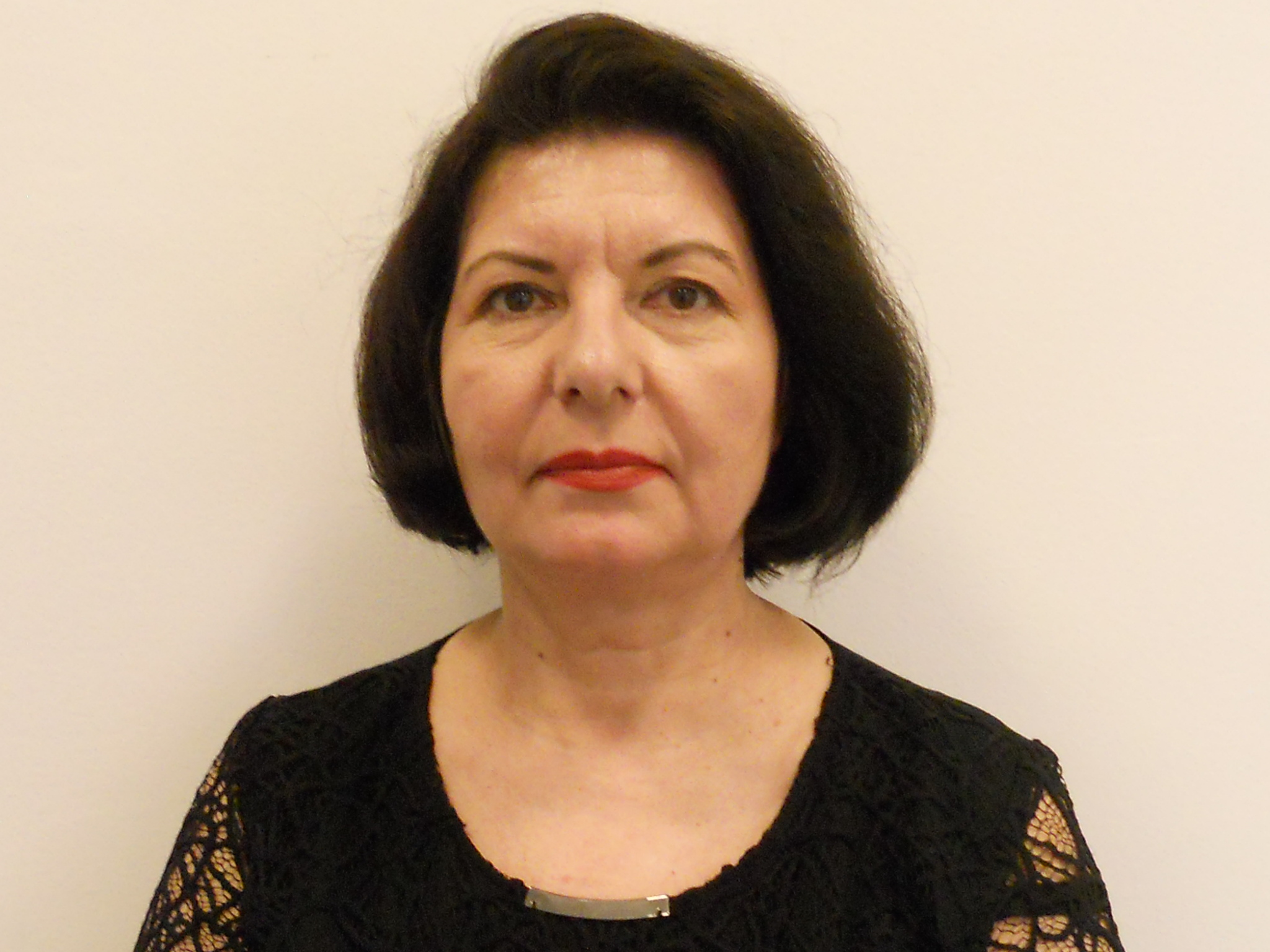 International Women's Day 2019, WMRS edit-a-thon